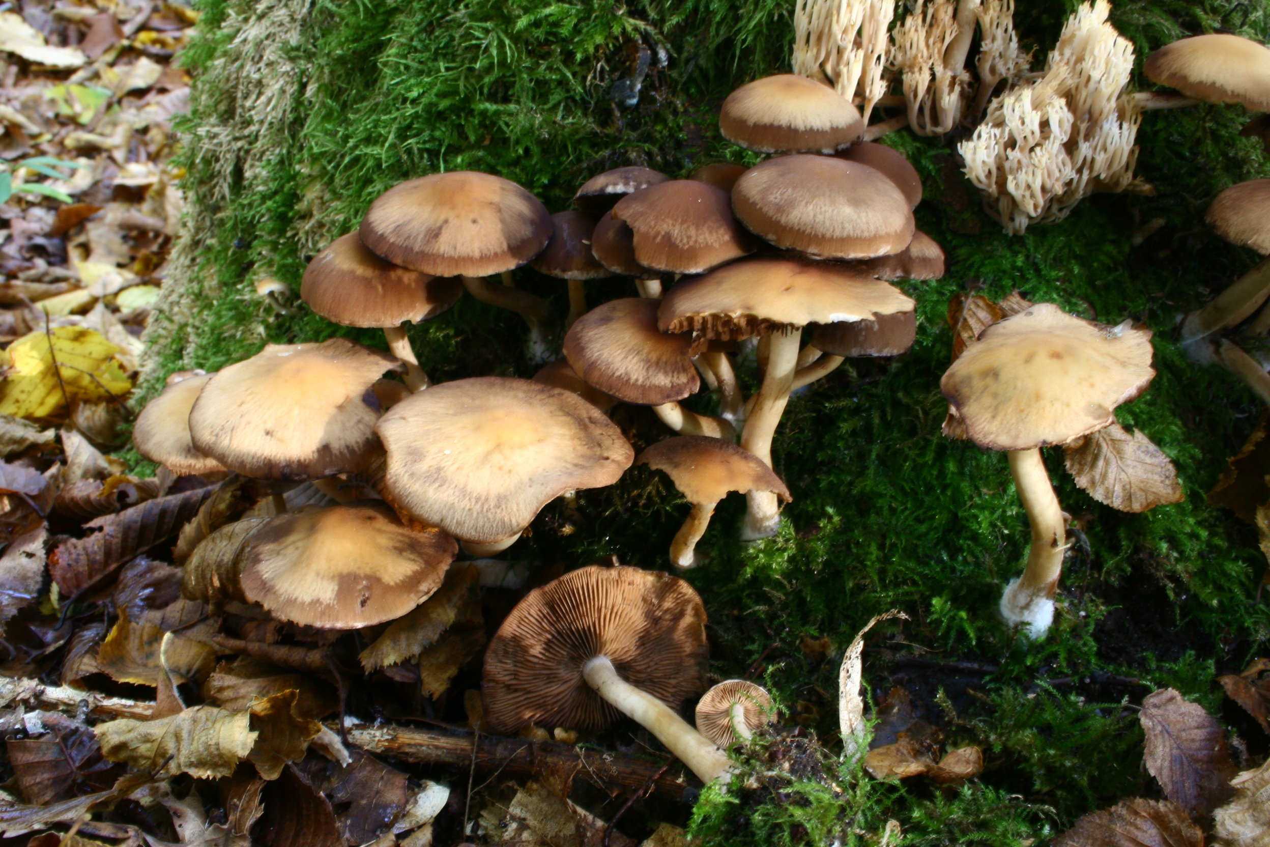 Psathyrella piluliformis (or Ps. hydrophila) in a wood near Rambouillet, France. There is some Ramaria stricta in the background.